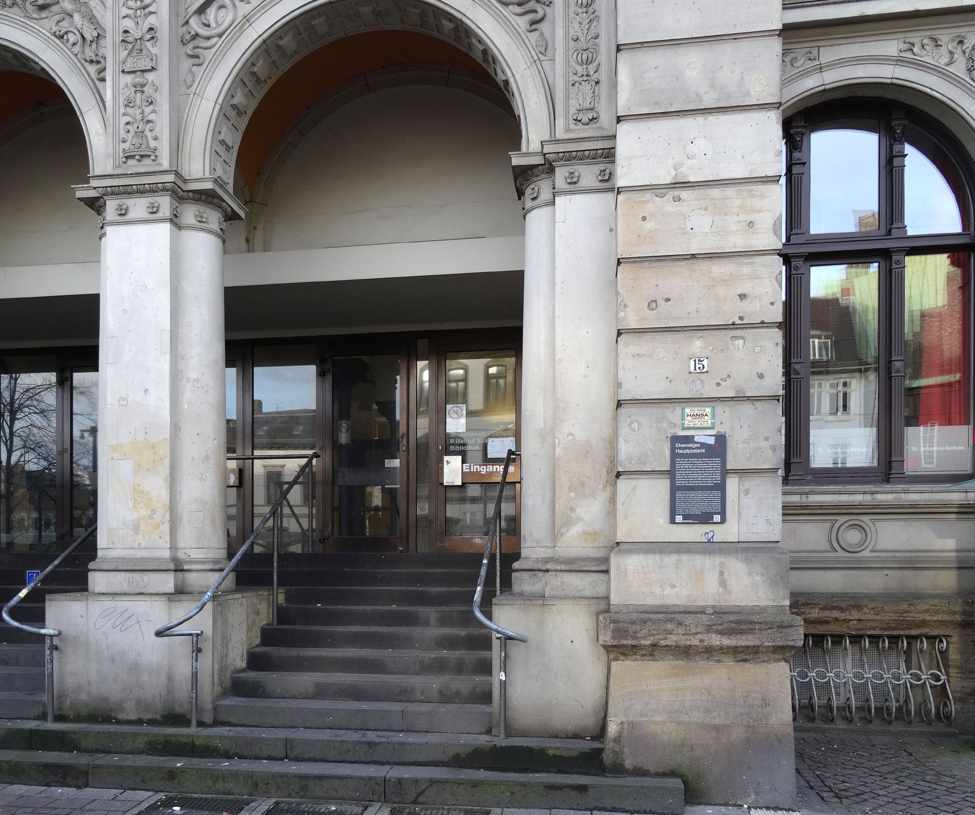 Info plaque and QRpedia-Code: Main Imperial Post Office Building in Bremen